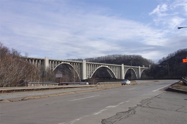 The George Westinghouse Bridge links North Versailles Township and the Borough of East Pittsburgh via US Route 30 (Lincoln Highway). This bridge spans the Turtle Creek Valley and is taken from the approach to the Tri-Boro Expressway traveling north east from Braddock to East Pittsburgh.